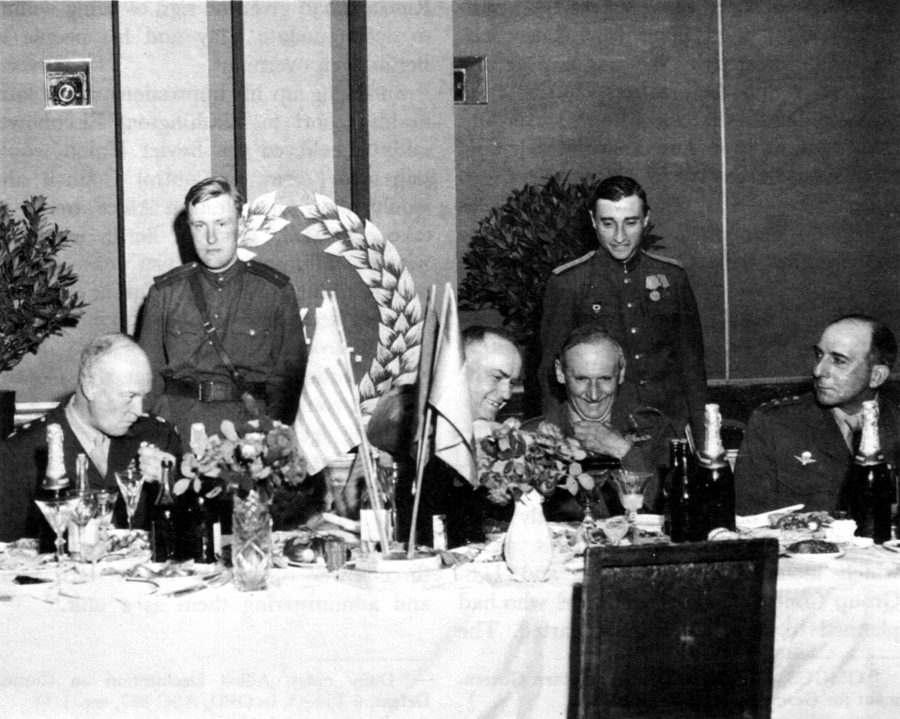 MARSHAL ZHUKOV (Center) POURS A TOAST at the 5 June 1945 meeting in Berlin. General Eisenhower (left) departed immediately after the toast. On. the right are Field Marshal Montgomery and General de Lattre de Tassigny.